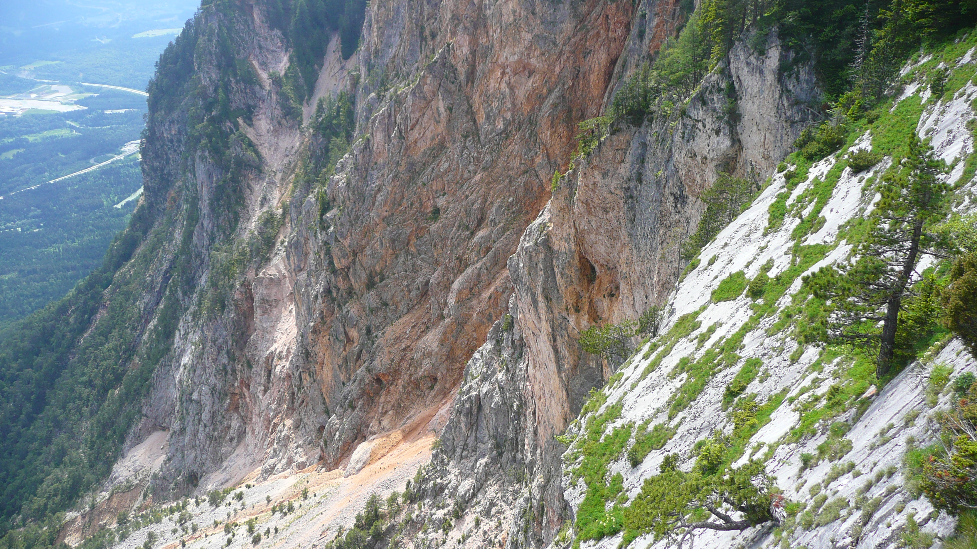 Rockslide at the Dobratsch (Austria)